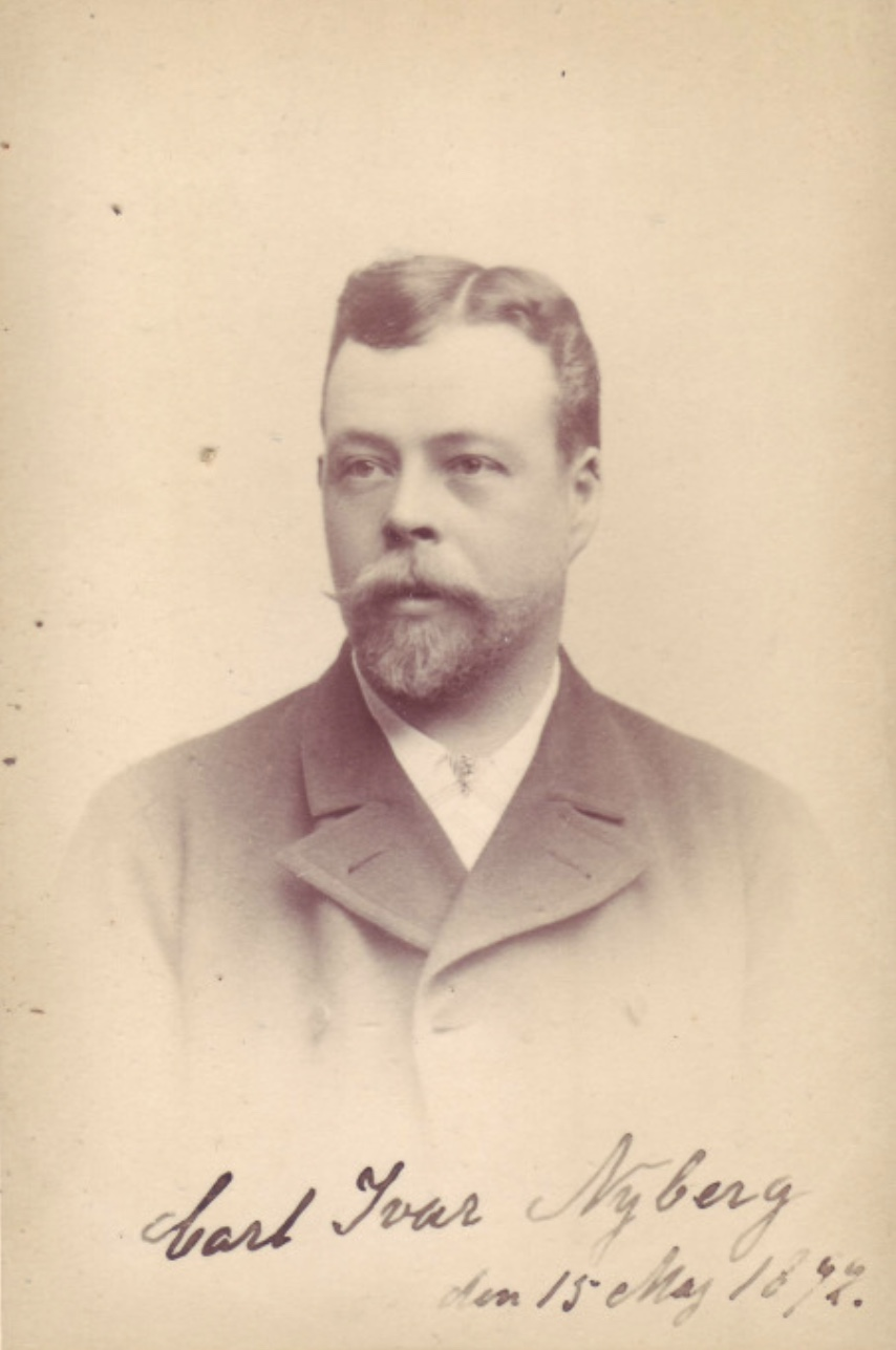 Carl-Ivar Nyberg was an artist from Stockholm